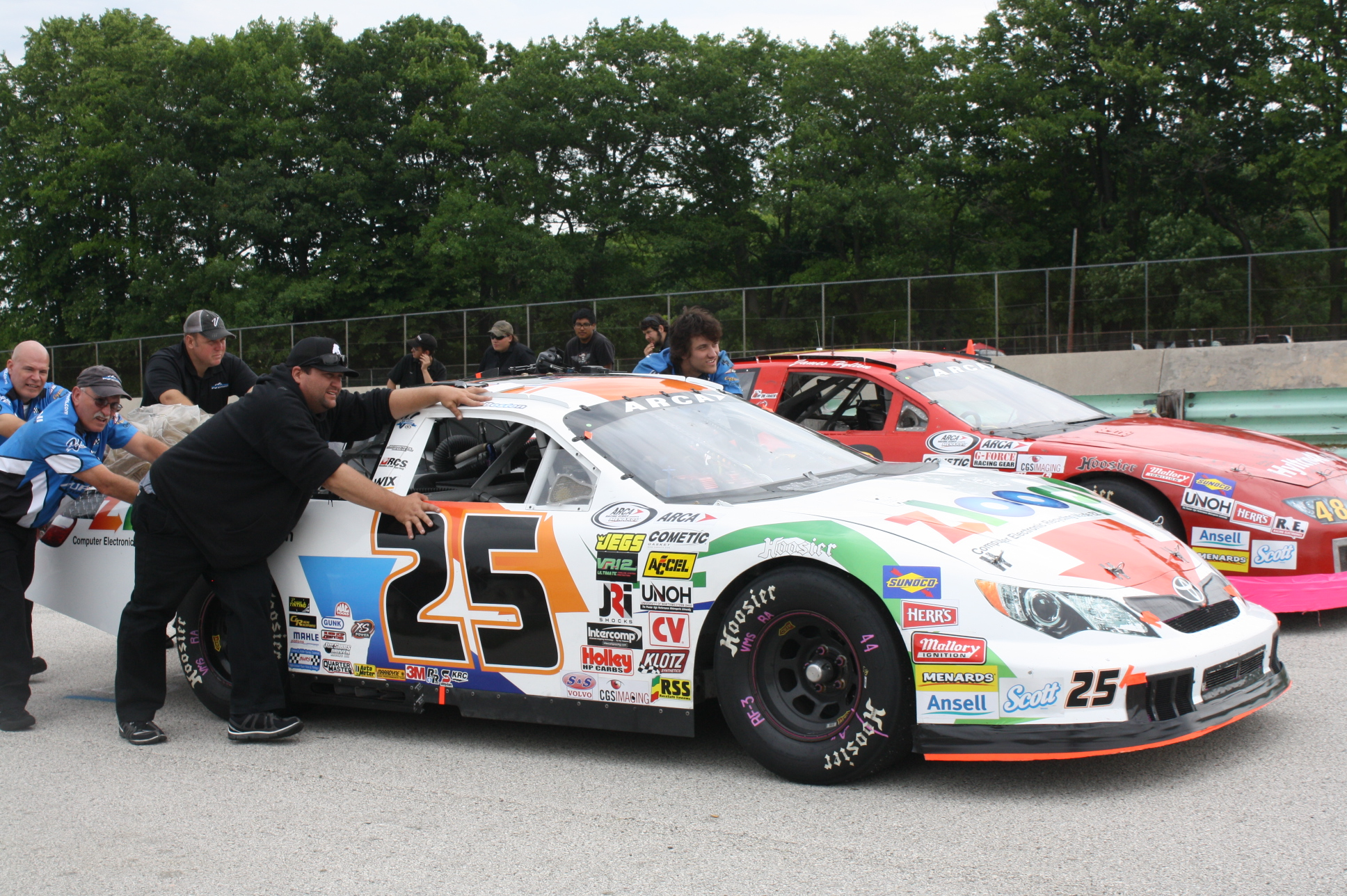 The pit crew for Justin Boston pushing his car on the grid at the 2013 Scott 160 ARCA race at Road America.